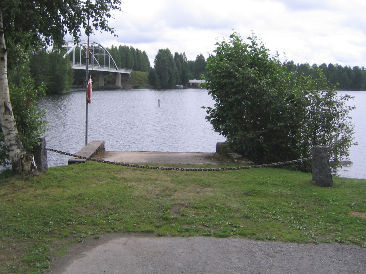 Kivisalmi strait, Konnevesi/Rautalampi, Finland. On the 28th July, 1956 a bus ran through bar to lake because broken brakes. Bus sank and 15 people drowned. Former ferry quay in picture, in background present bridge over strait.